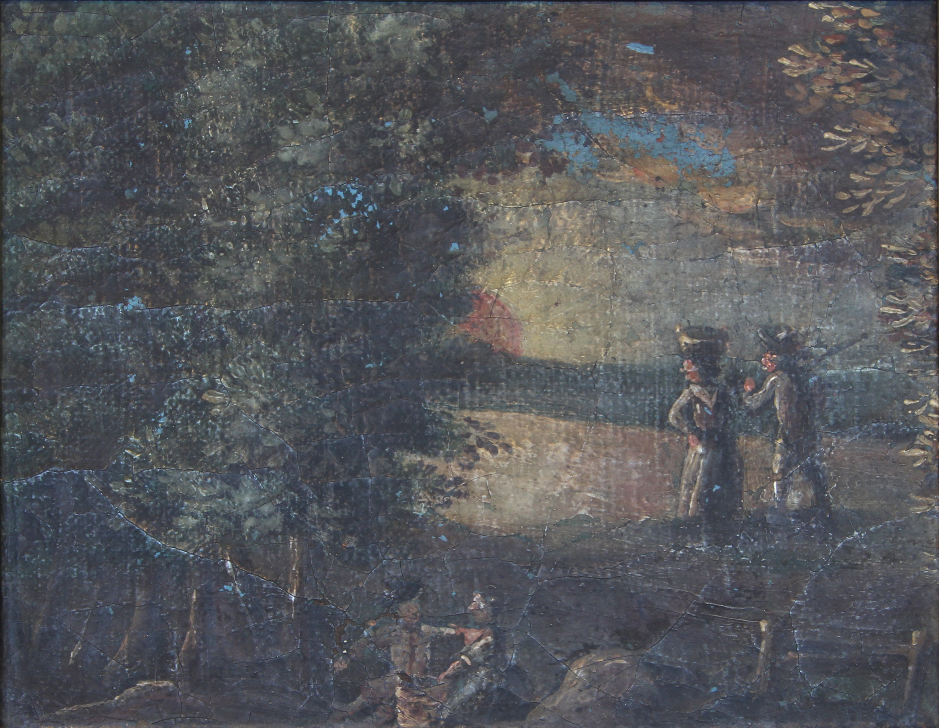 Idyllic landscape by Daniel Hisgen, Lich, Germany